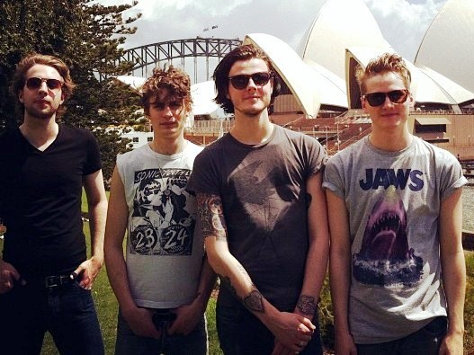 Sharks (2013 lineup) on tour in Australia